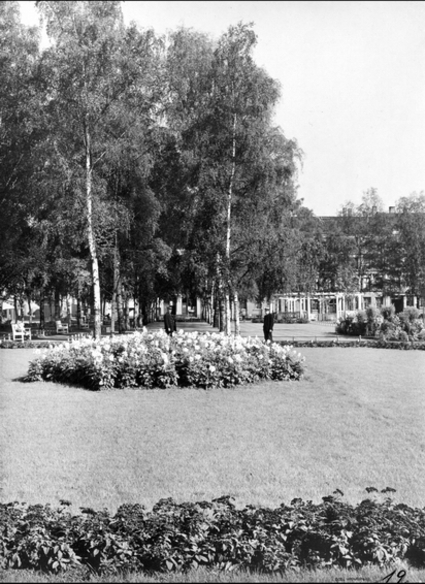 Birkelunden park, 1920